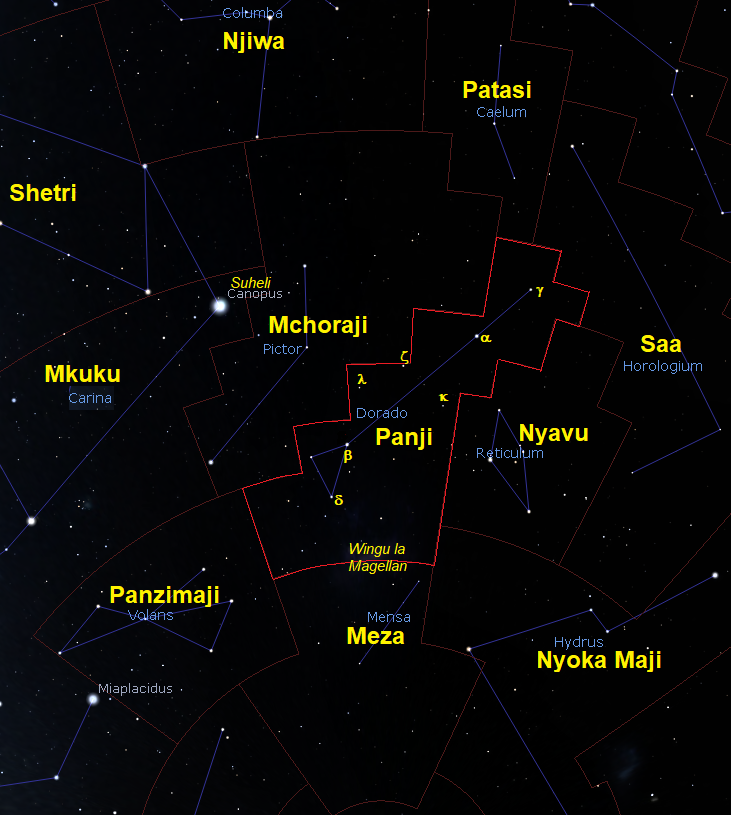 Constellation Dorado as seen from Tanzania, Swahili labelled Kiswahili: Kundinyota Panji (Dorado) jinsi inavyoonekana kutoka Tanzania, majina kwa Kiswahili